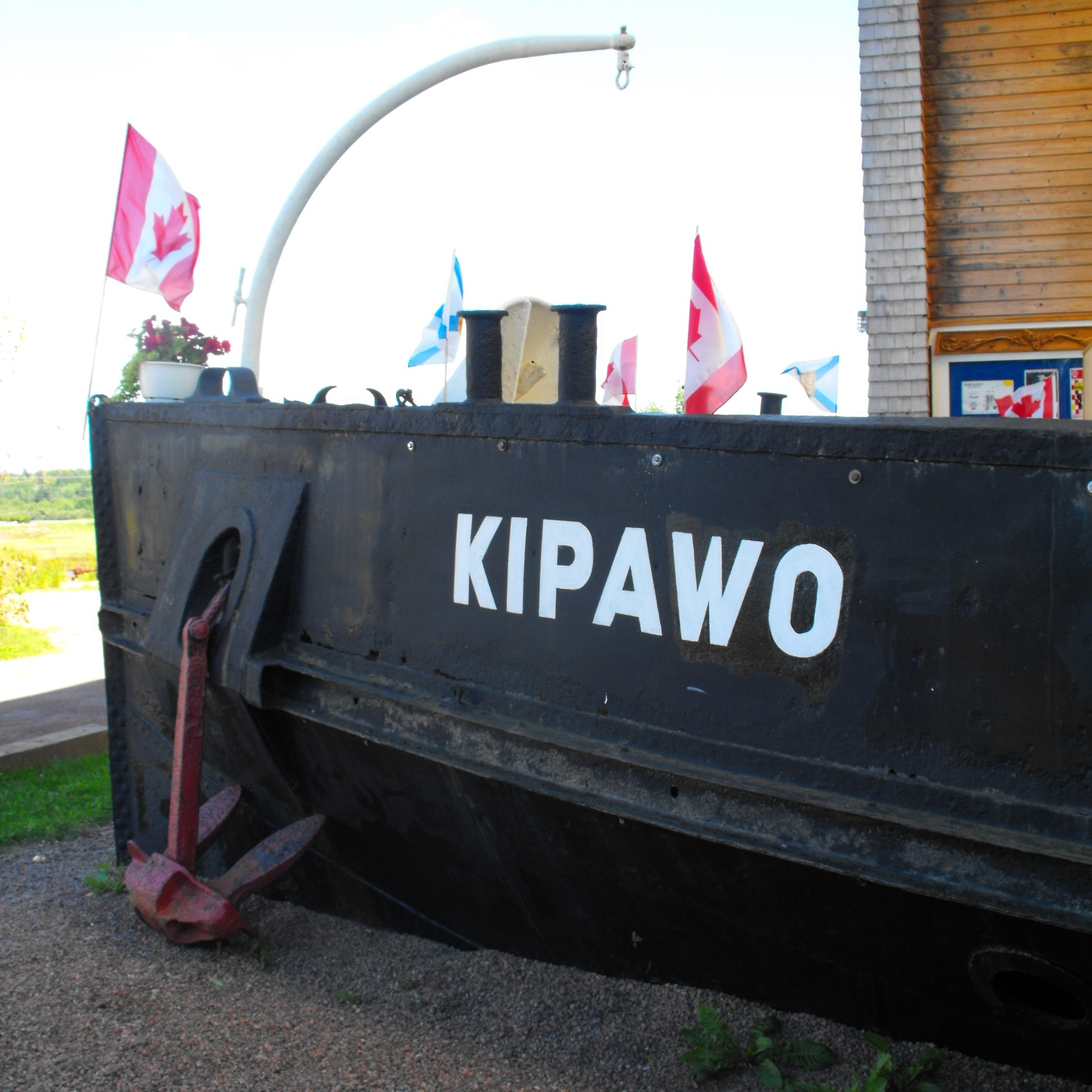 Bow of the MV Kipawo as incorporated into the Ship's Company Theatre, Parrsboro NS